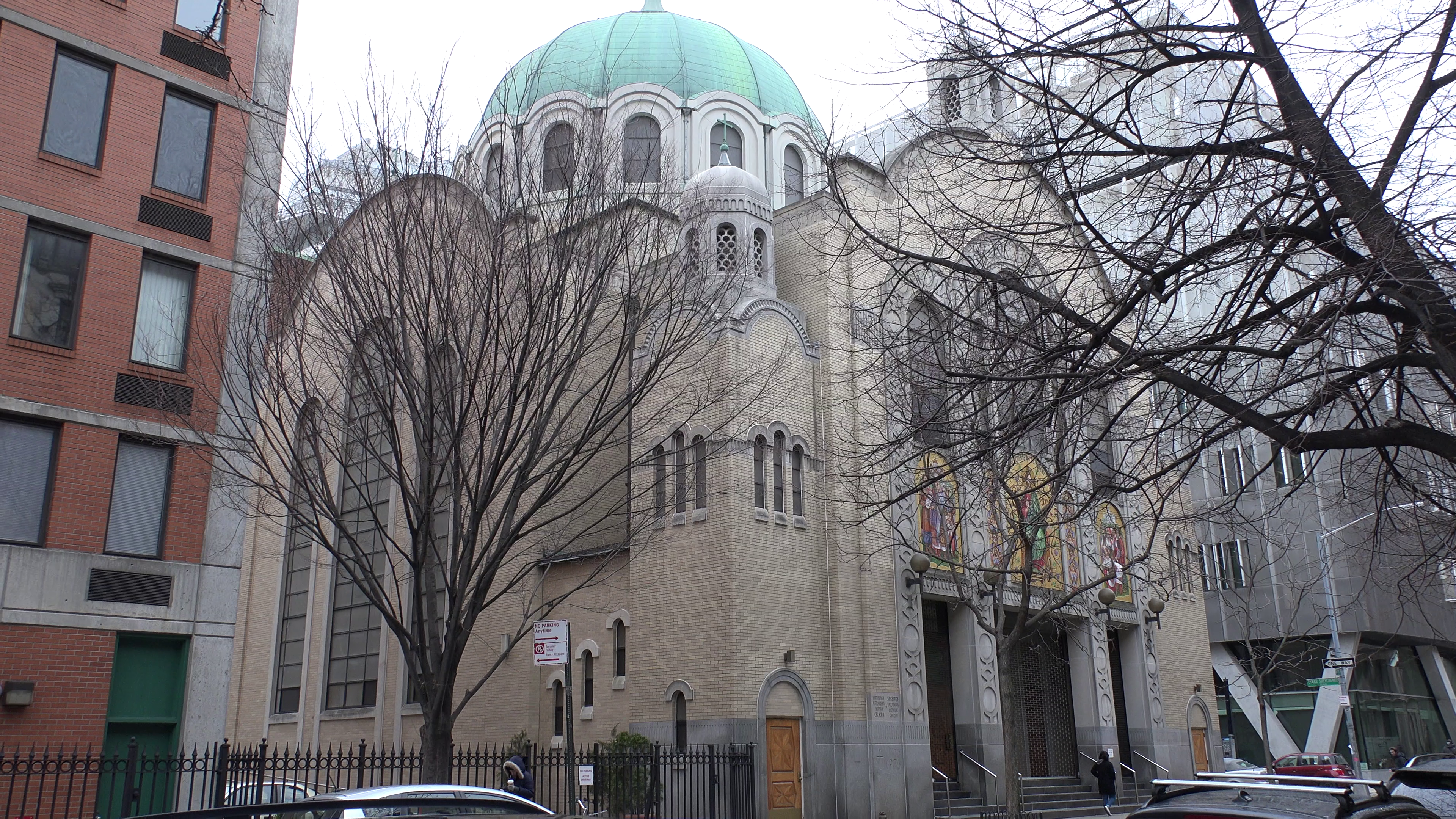 St George Ukrainian Catholic Church in New York City